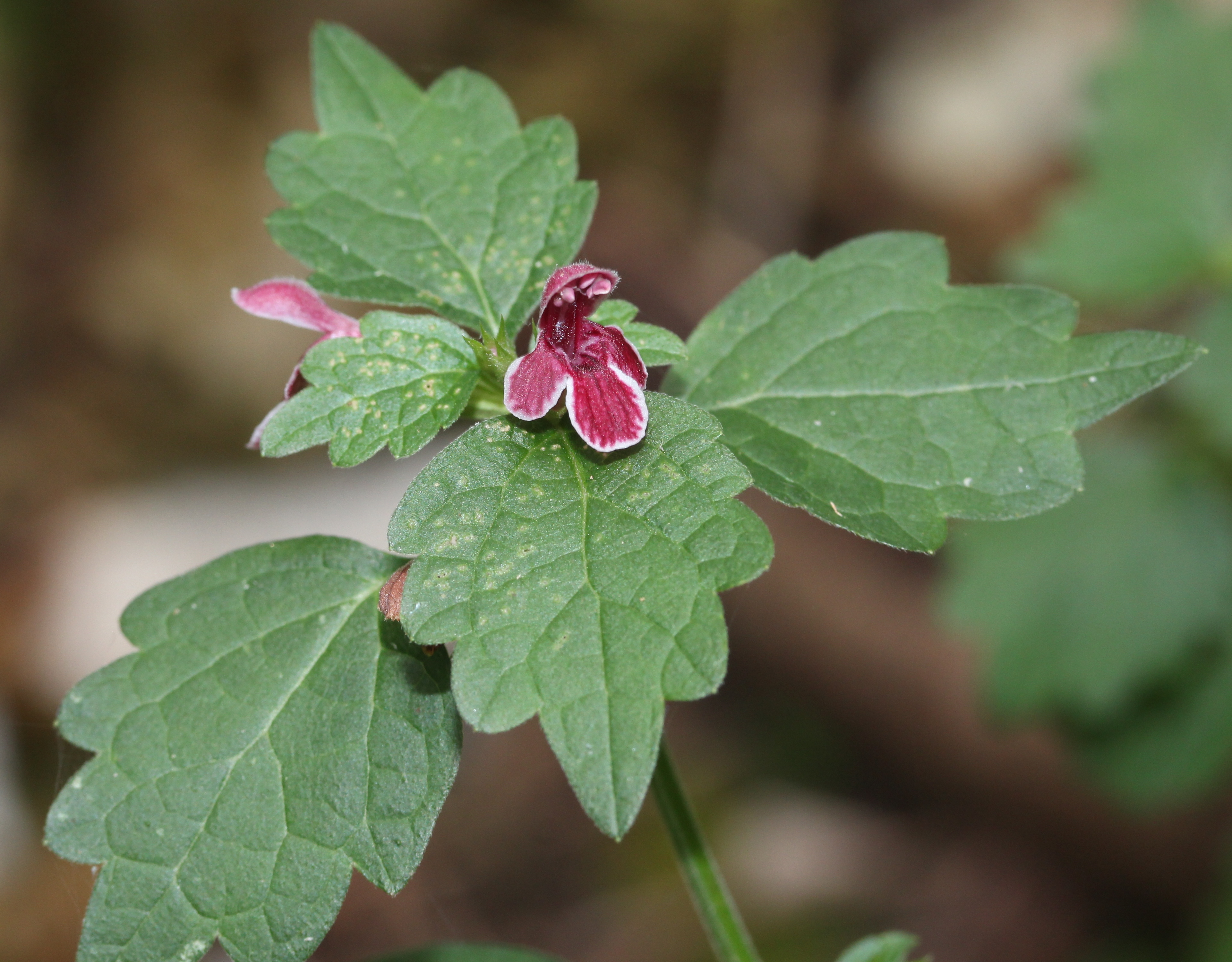 Loxocalyx ambiguus (Makino) Makino, in Mount Ibuki, Gifu pref., Japan.